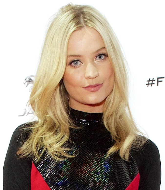 Laura Whitmore was a guest of Jaguar at the reveal of the new XE in London, Monday 8th September 2014.